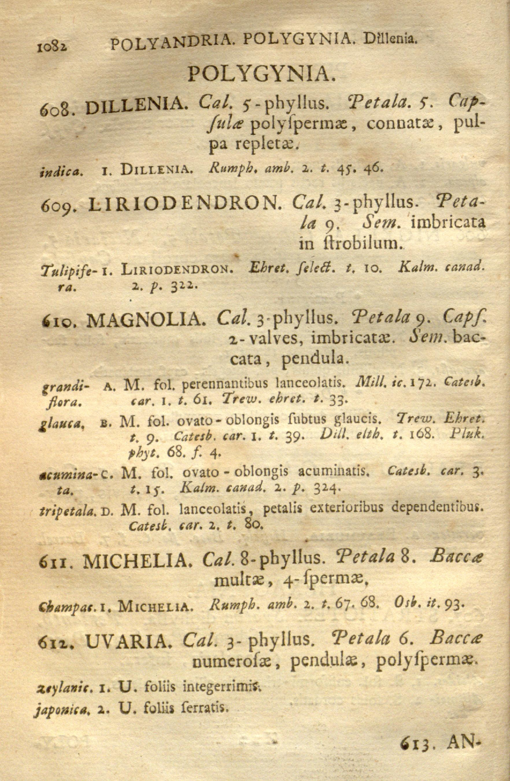 Page 1082 of Linnaeus's Systema naturae 10th edition, 1759